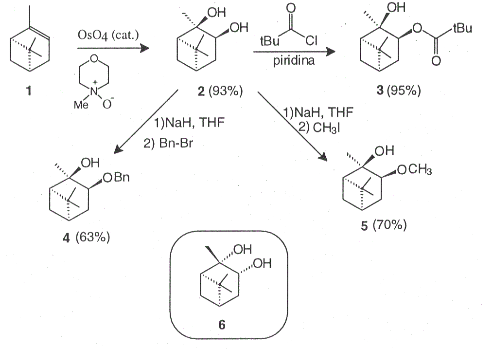 Sintassim